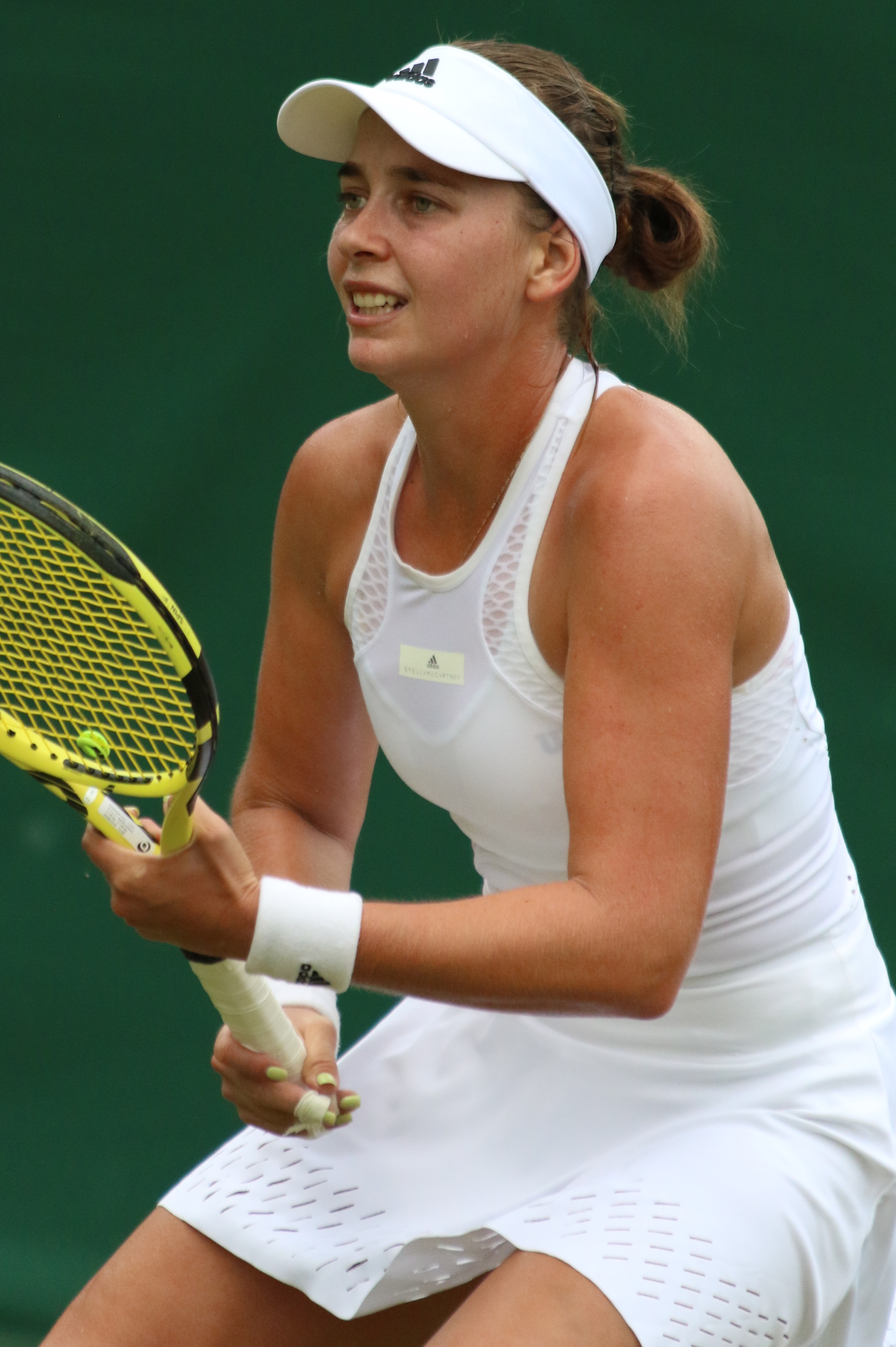 2019 Wimbledon Qualifying Tournament.